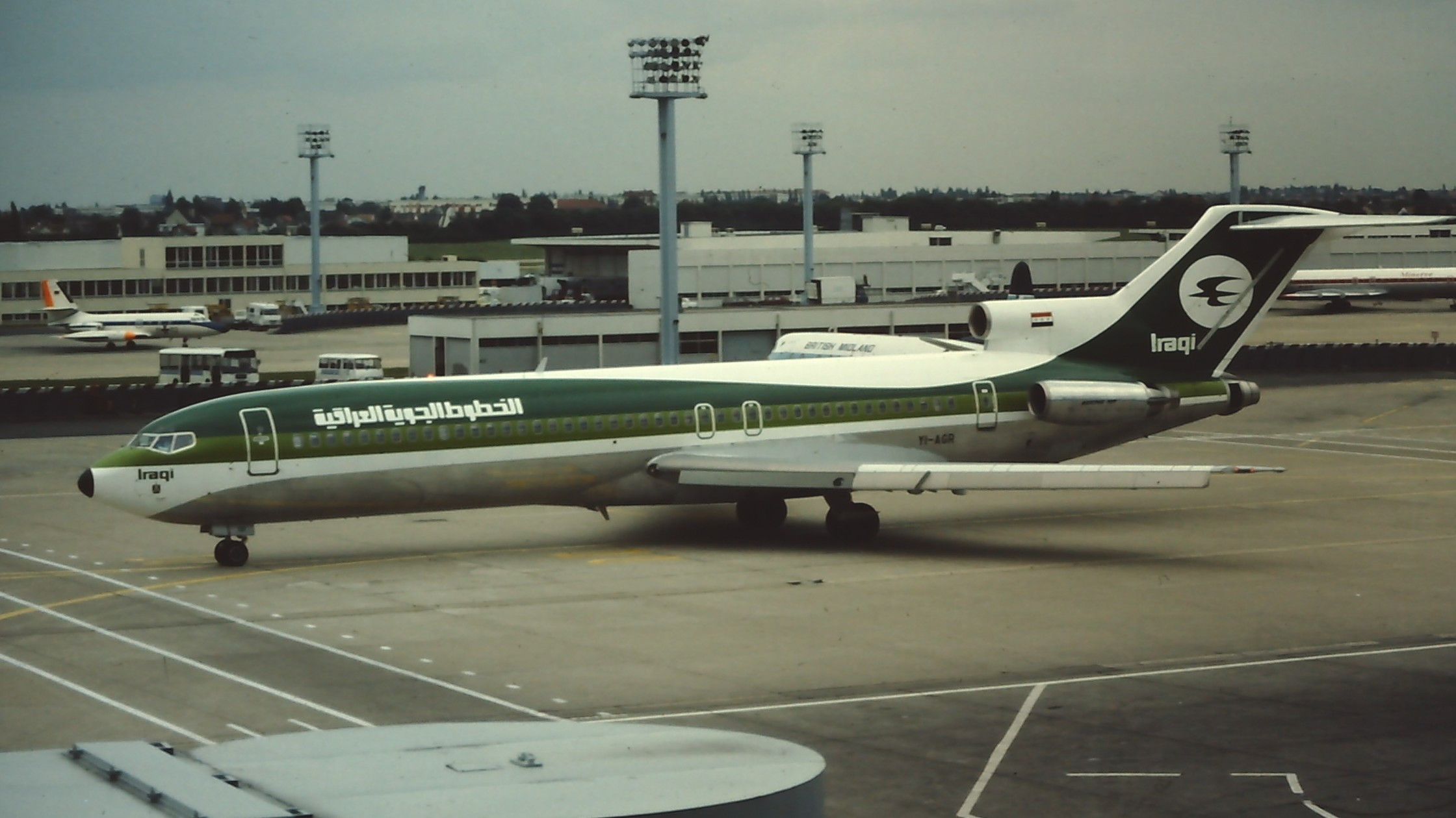 YI-AGR a Boeing 727-270 of Iraqi Airways at Paris-Orly Airport (scan from slide)